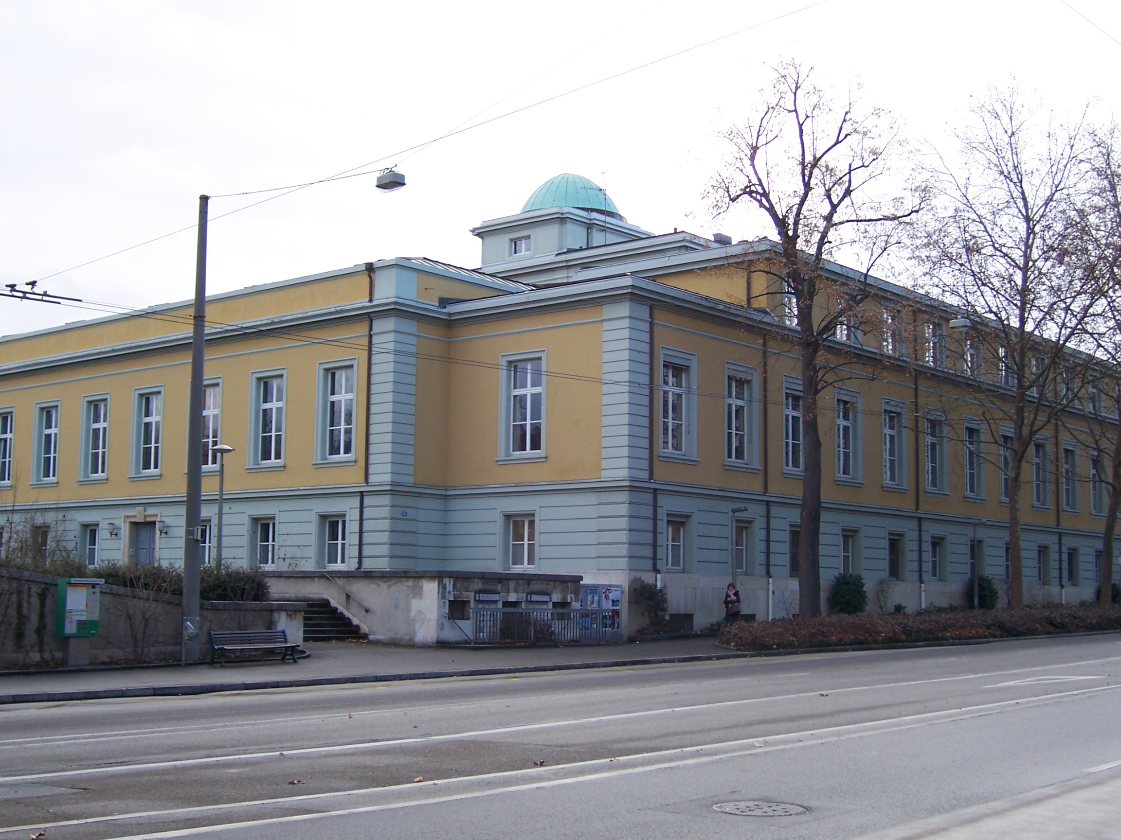 Bernoullianum Basel shot from the Bernoullianum bus station